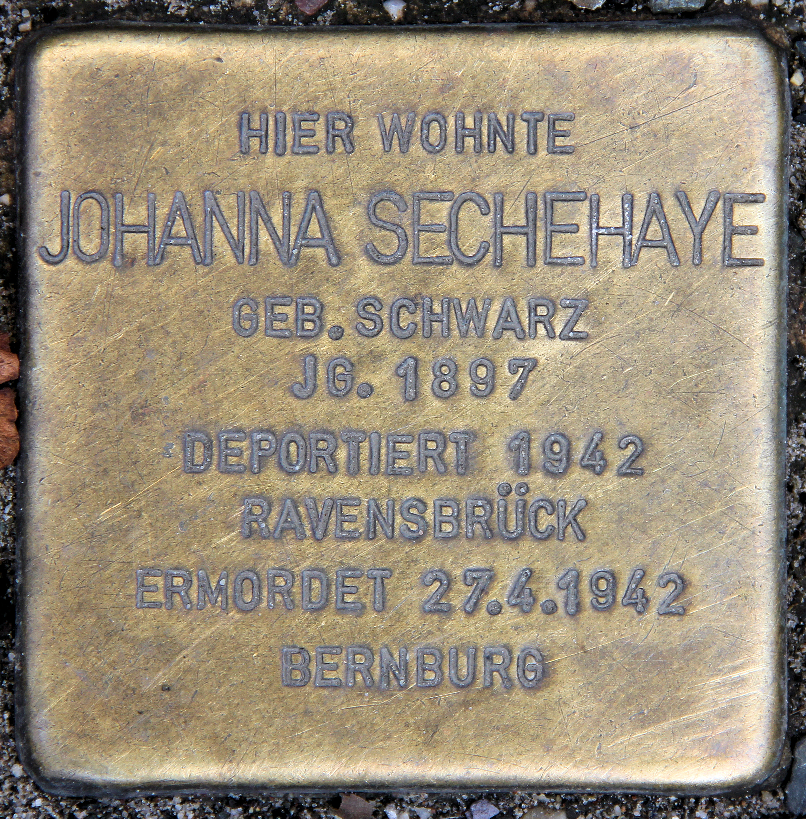 "Stolperstein" (stumbling block), Johanna Sechehaye, Konstanzer Straße 4, Berlin-Wilmersdorf, Germany